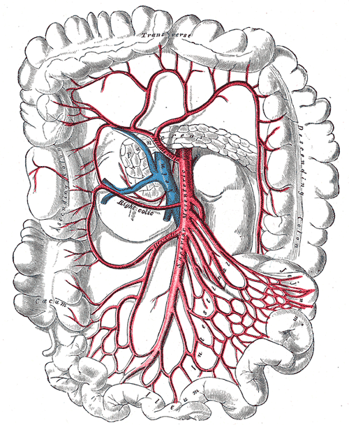 superior mesenteric artery Gray's Anatomy - copyright expired thus public domain from